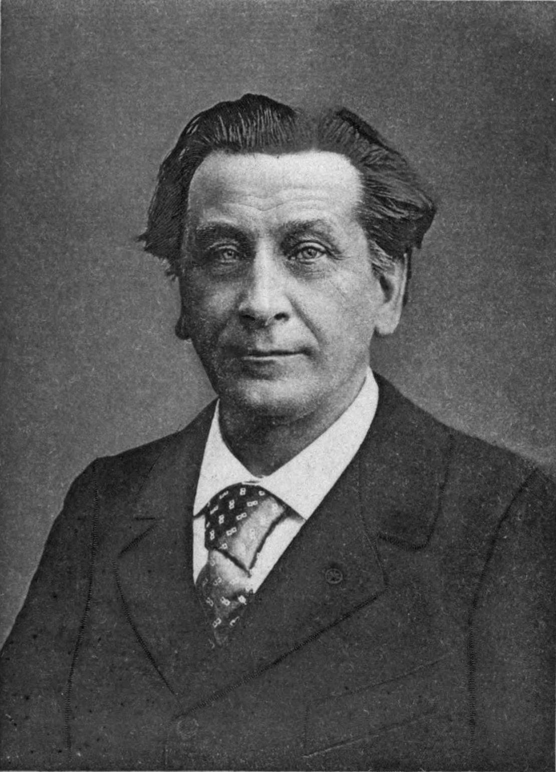 François Coppée, from Stories By Foreign Authors (French II), New York Charles Scribner's Sons